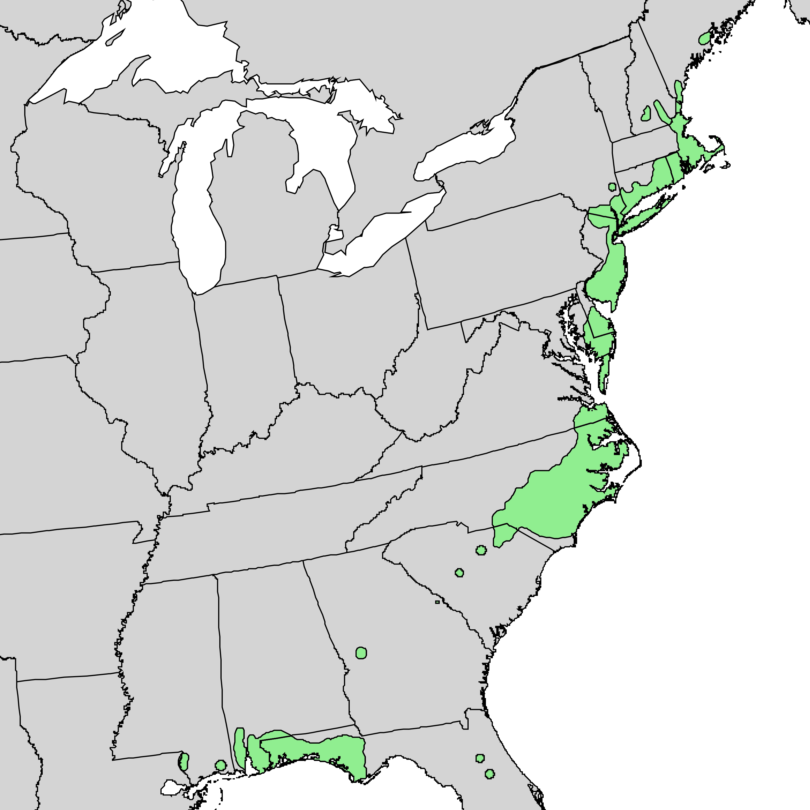 Natural distribution map for Chamaecyparis thyoides